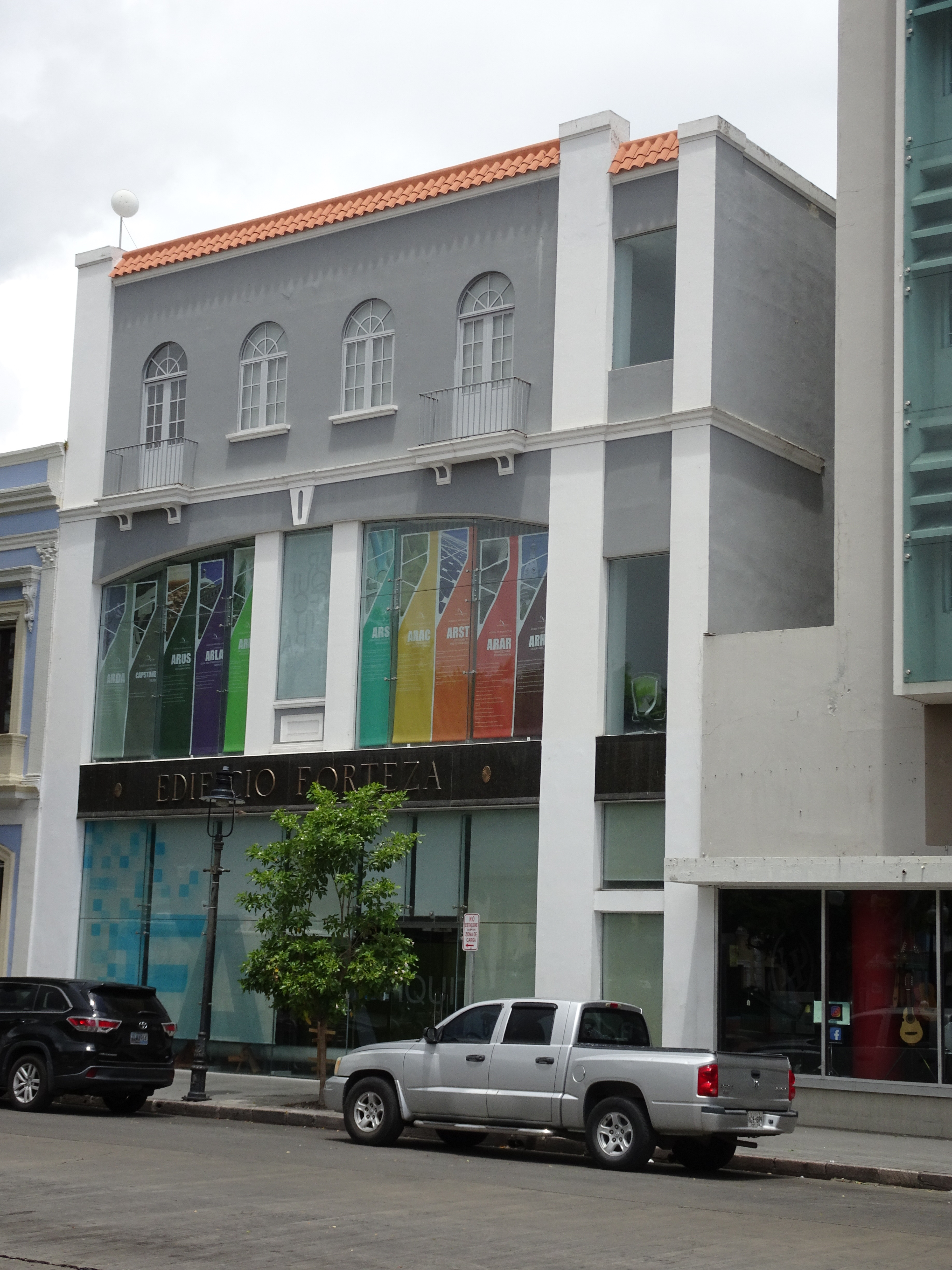 PUCPR Escuela de Arquitectura, C. Marina, Bo. Tercero, Ponce, Puerto Rico, mirando al noreste (DSC01505)